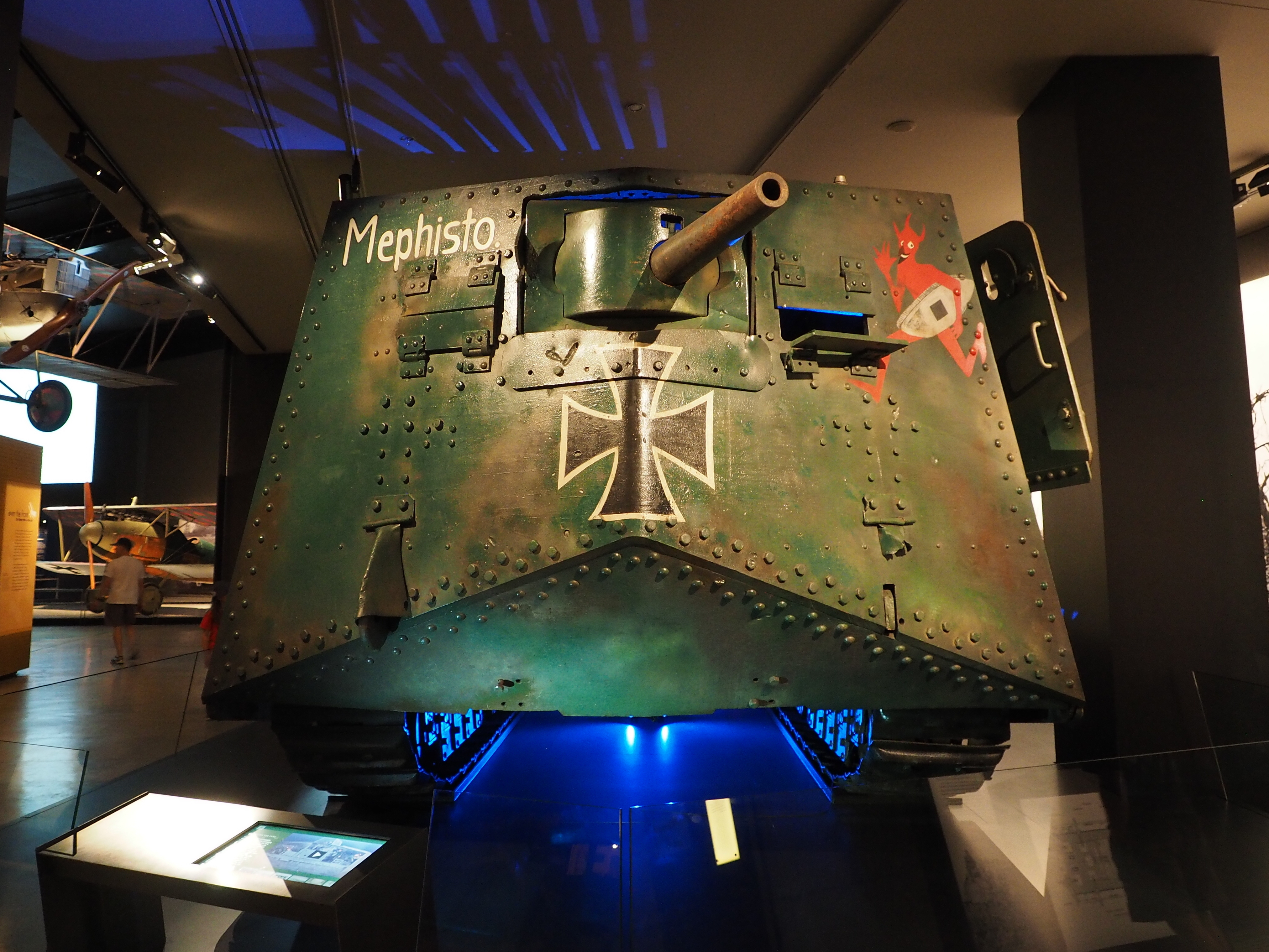 The front of the tank Mephisto while on display at the Australian War Memorial